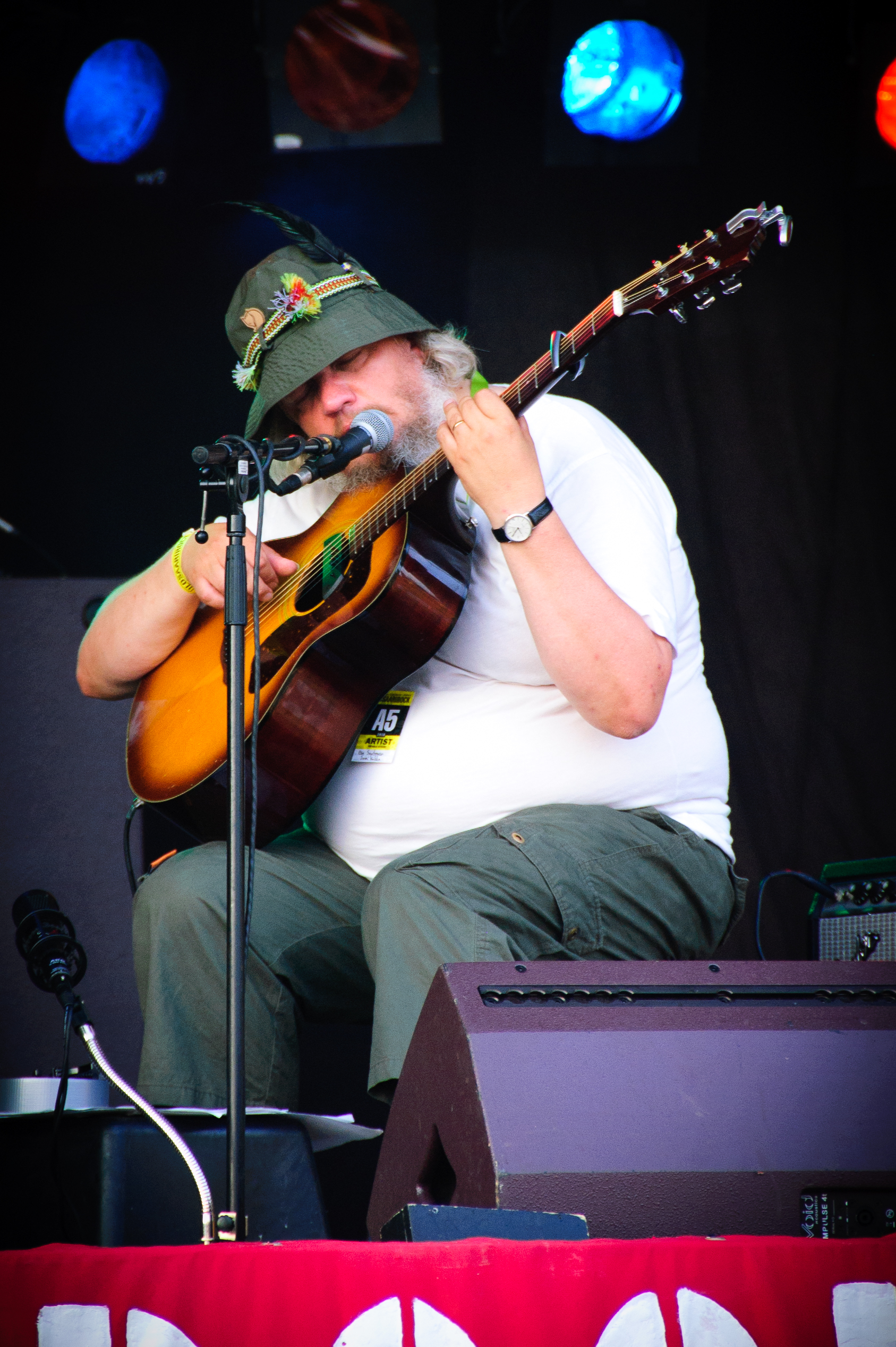 Finnish artist Esa Santonen aka Sami Kukka performing at the 2010 Ilosaarirock festival in Joensuu, Finland.